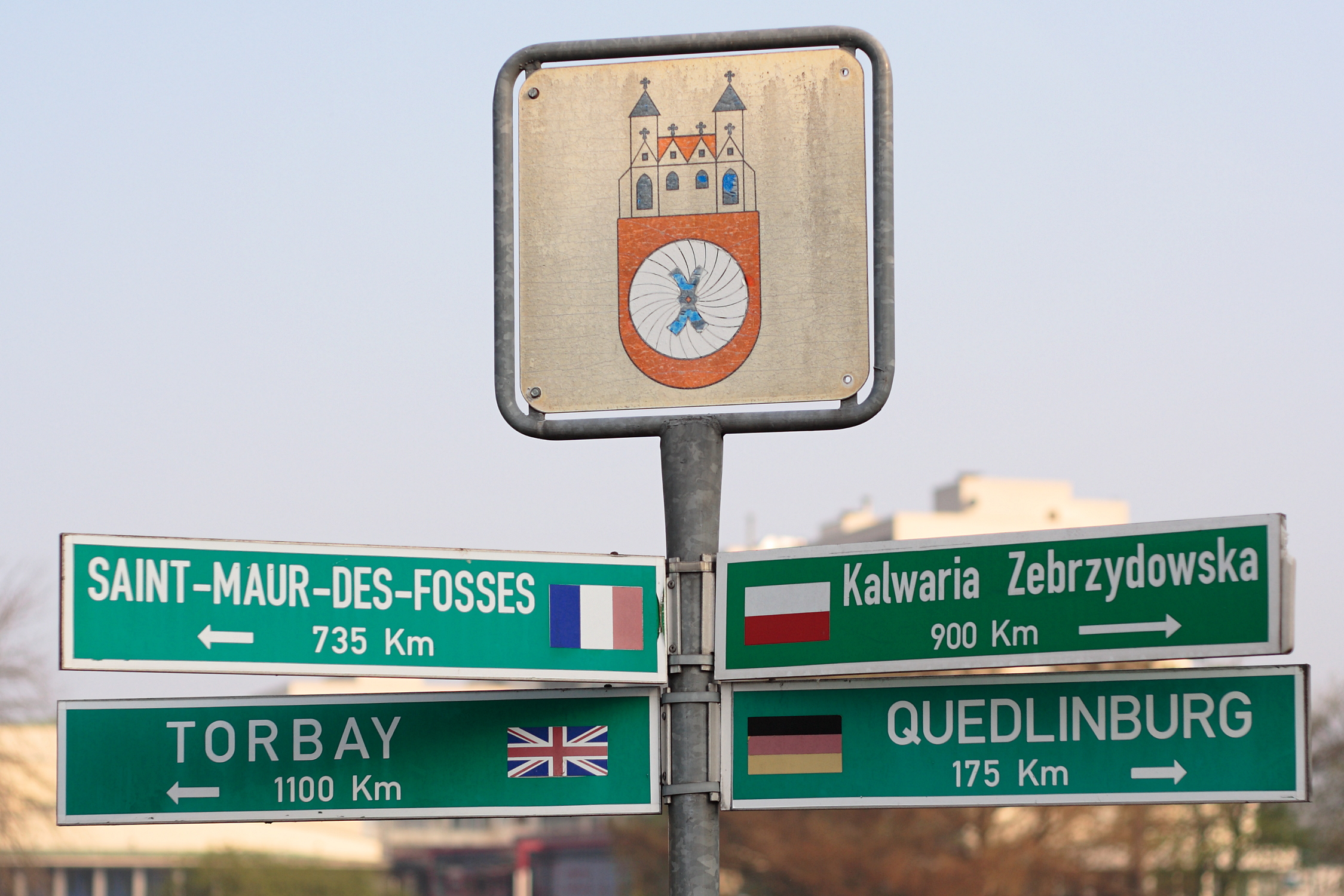 This image shows a signpost in Hameln, Germany, which shows the twin towns of Hameln.